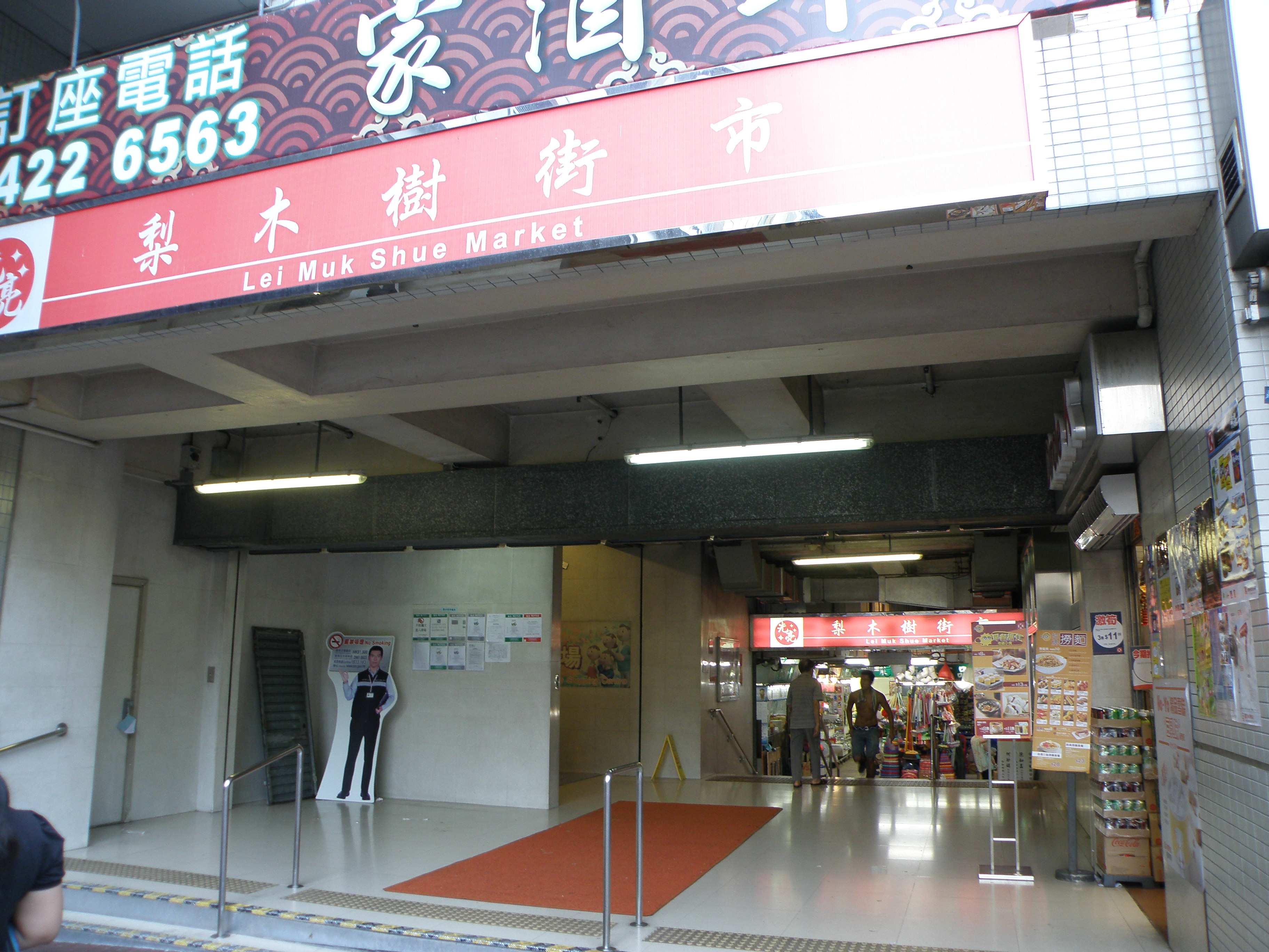 Lei Muk Shue Market in Kwai Chung, Hong Kong.